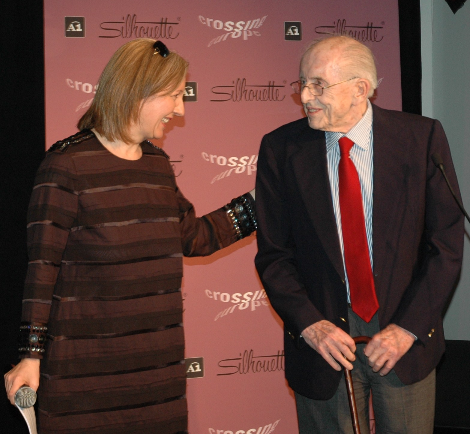 former film producer and Viennale director Eric Pleskow (beside Crossing Europe directress Christine Dollhofer) at the 8th Crossing Europe Film Festival in Linz, Austria, 2011